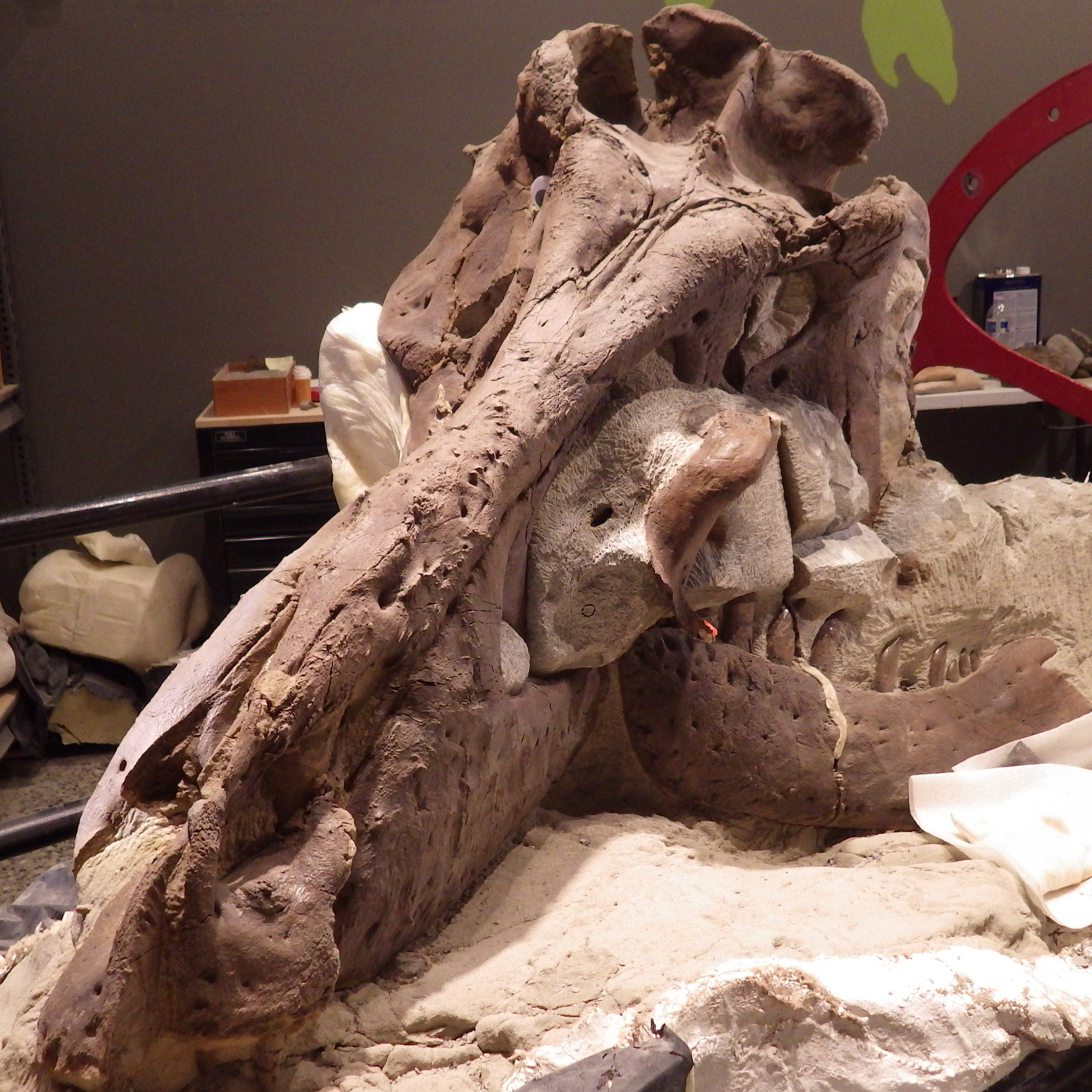 The Tufts-Love T. rex under preparation at the Burke Museum in Seattle, WA.